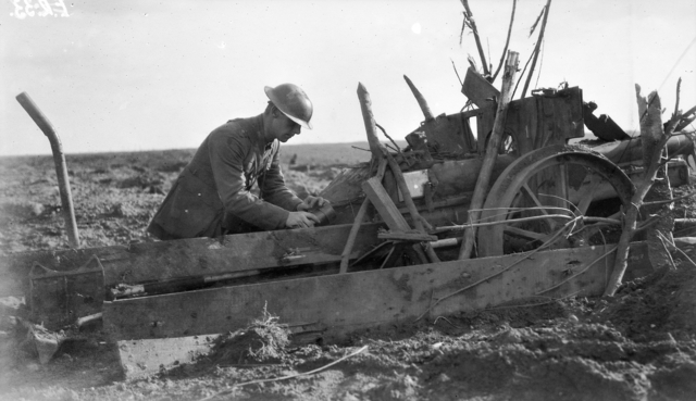 Image # E04514 from Australian War Memorial, with following text: "An unidentified Australian officer examines one of the two guns captured by the 45th Battalion the day after this portion of Broodseinde Ridge was taken by Australian forces. This gun was destroyed a few days later by a German 5.9 shell."